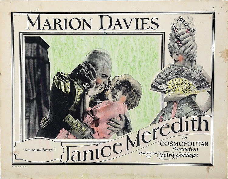 Poster del film Janice Meredith